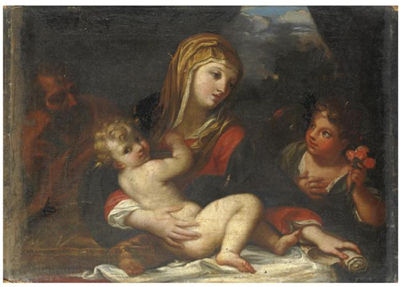 The Holy Family with St John